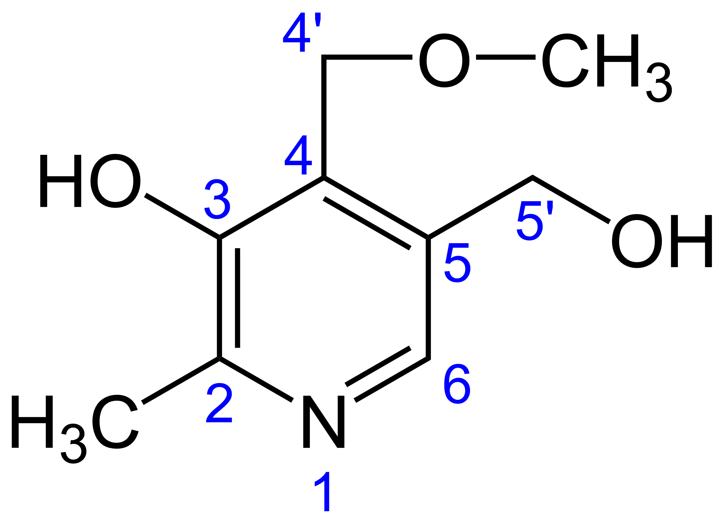 Structure of ginkgotoxin, an antivitamin related to vitamin B6.